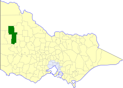 Location of the former Shire of Dimboola within Victoria.